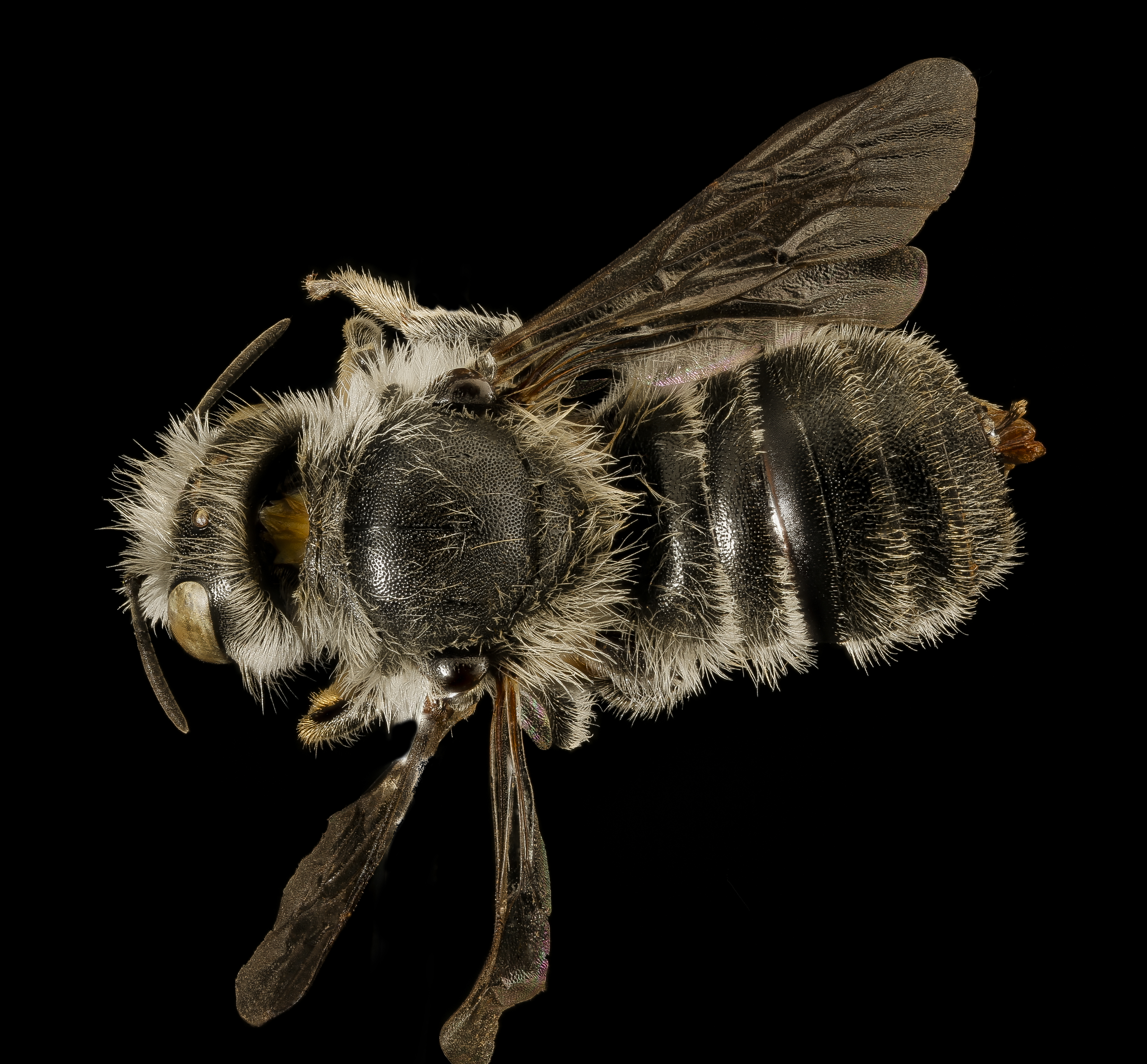 Hoplitis anthocopoides - relatively recently introduced species into North America, this is a bee who specializes in the equally introduced plant Vipers Bugloss (Echium vulgare). Perhaps because it is a plant specialist it is not recorded very often, but there are scattered records throughout eastern North America particularly in the north east and along the Appalachians. Theoretically it should spread throughout the range of its plant pollen host. The specimen represents the first record for the species in the state of Maryland and was collected in Washington County. Photography by Amanda Robinson. 15:47, 8 July 2016 (UTC)15:47, 8 July 2016 (UTC) 0 15:47, 8 July 2016 (UTC)15:47, 8 July 2016 (UTC) All photographs are public domain, feel free to download and use as you wish. Photography Information: Canon Mark II 5D, Zerene Stacker, Stackshot Sled, 65mm Canon MP-E 1-5X macro lens, Twin Macro Flash in Styrofoam Cooler, F5.0, ISO 100, Shutter Speed 200 Beauty is truth, truth beauty - that is all Ye know on earth and all ye need to know " Ode on a Grecian Urn" John Keats You can also follow us on Instagram - account = USGSBIML Want some Useful Links to the Techniques We Use? Well now here you go Citizen: Art Photo Book: Bees: An Up-Close Look at Pollinators Around the World Basic USGSBIML set up: USGSBIML Photoshopping Technique: Note that we now have added using the burn tool at 50% opacity set to shadows to clean up the halos that bleed into the black background from "hot" color sections of the picture. PDF of Basic USGSBIML Photography Set Up: ftp://ftpext.usgs.gov/pub/er/md/laurel/Droege/How%20to%20Take%20MacroPhotographs%20of%20Insects%20BIML%20Lab2.pdf Google Hangout Demonstration of Techniques: or Excellent Technical Form on Stacking: Contact information: Sam Droege 301 497 5840